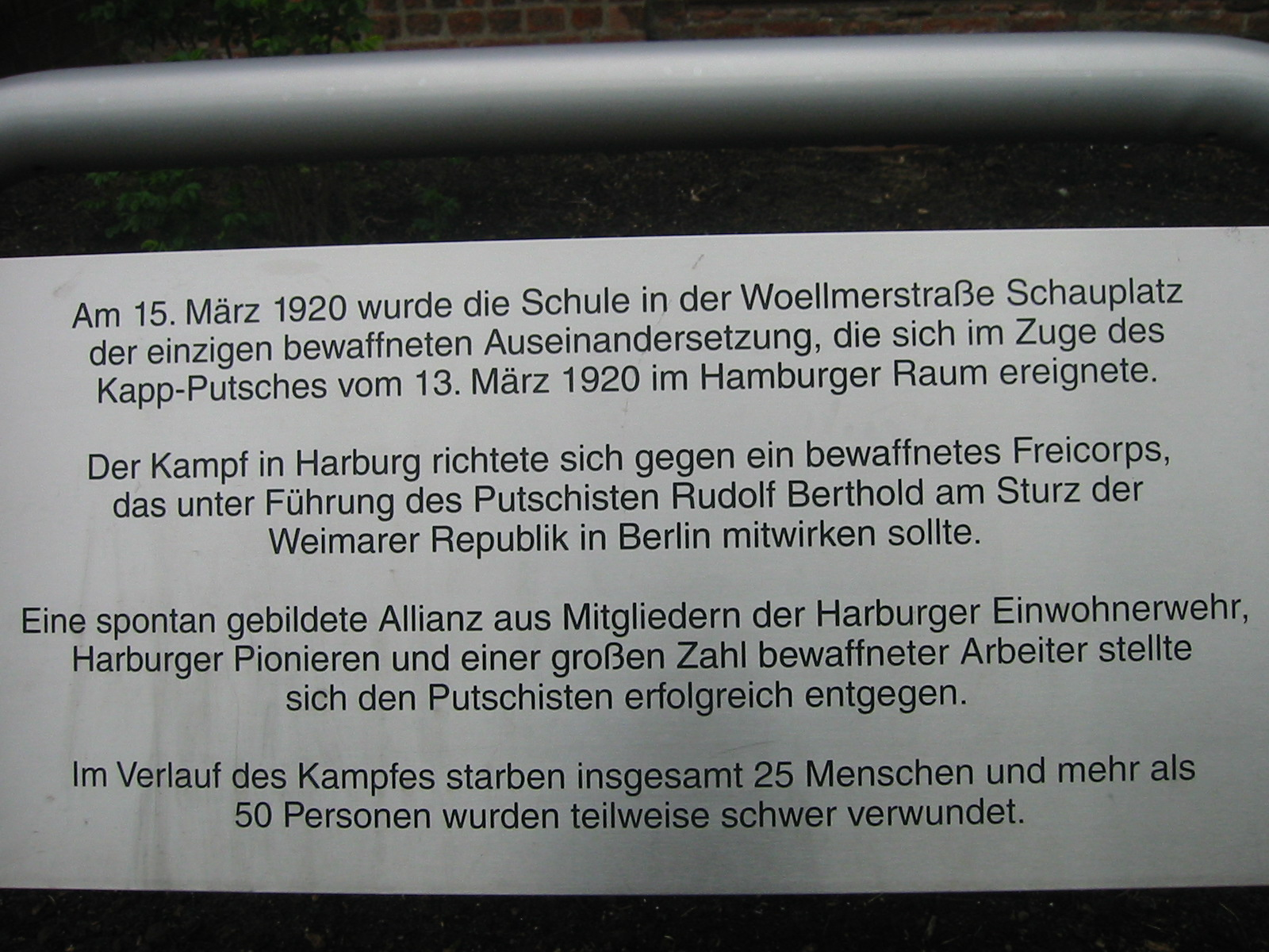 This commemorate plaque is to commemorate the Kapp-Putsch of 13th march 1920 in Hamburg